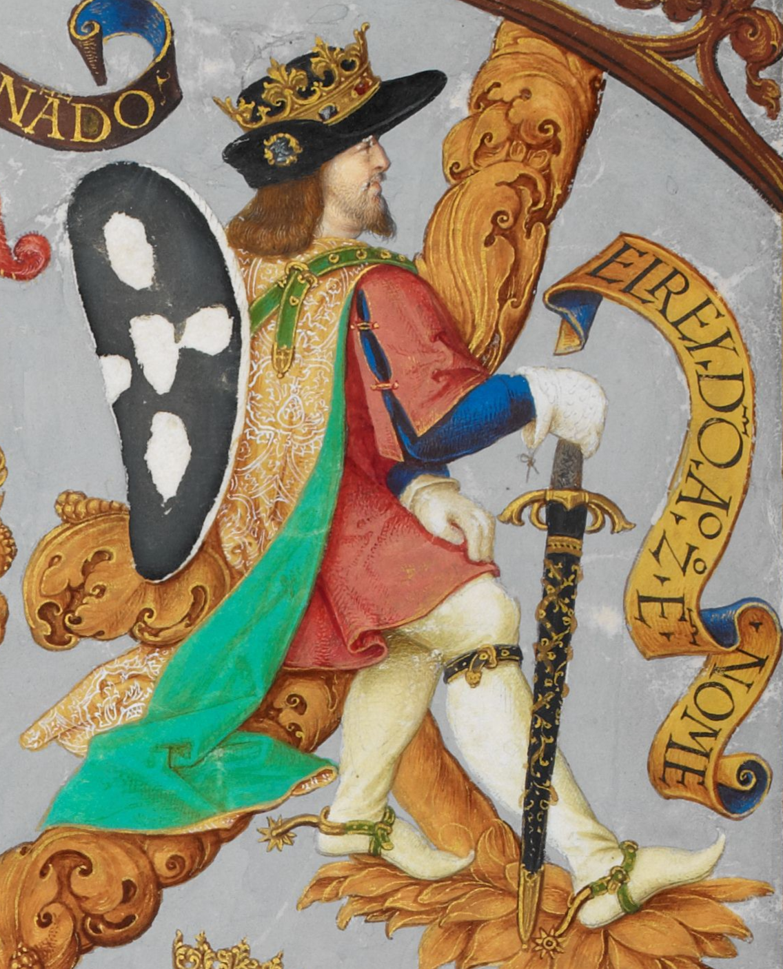 King Alfonso II of Portugal (1185-1223), King of Portugal, in a 16th-century miniature.